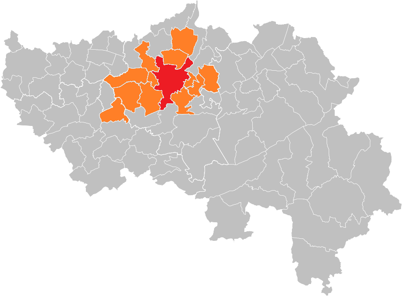 Map of the operational agglomeration.